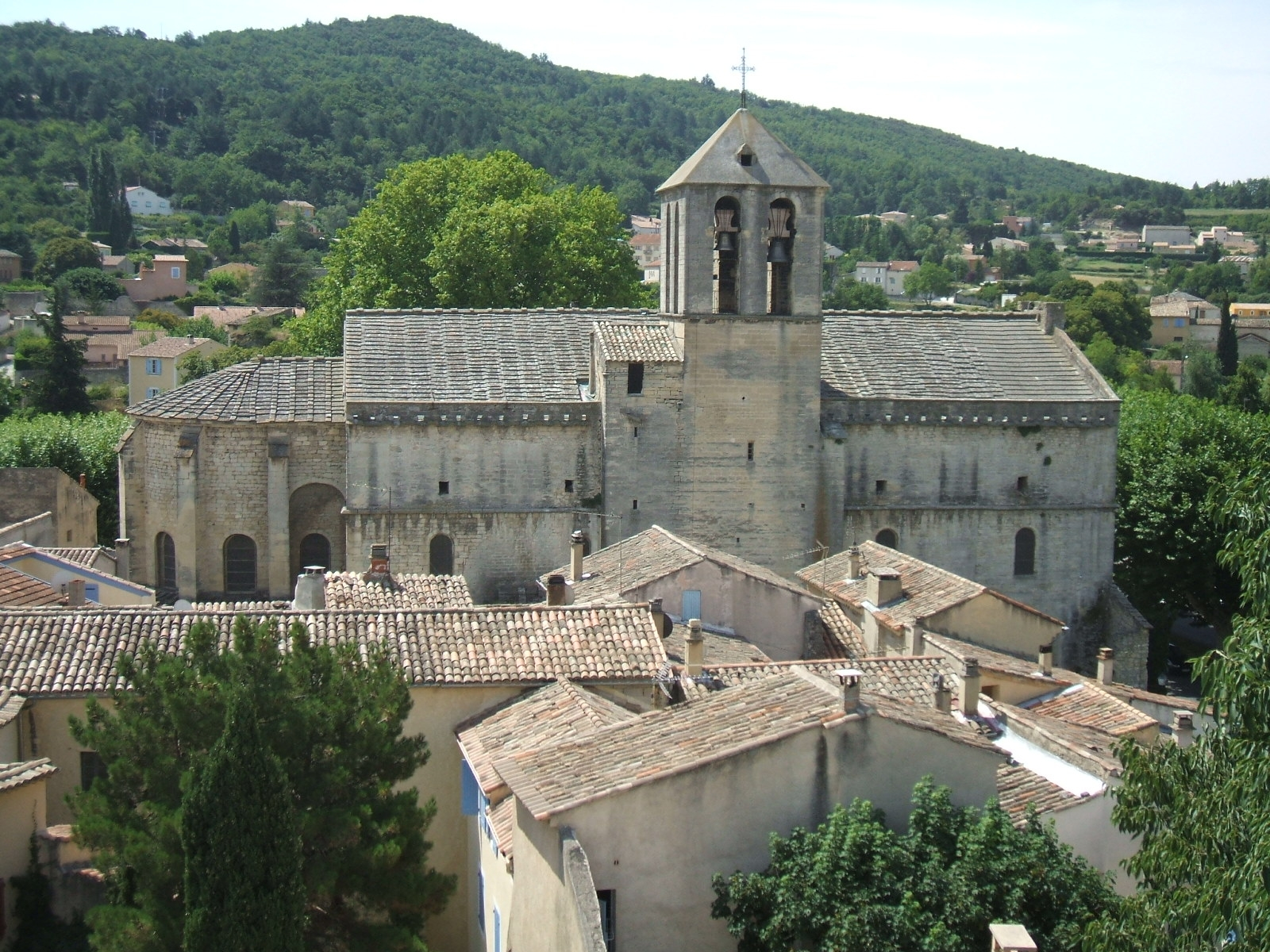 Malaucène (département of Vaucluse, Provence-Alpes-Côte-d'Azur région, France) : Saint-Michel church (build in the XIVth century and altered since) viewed from the site of the castle.